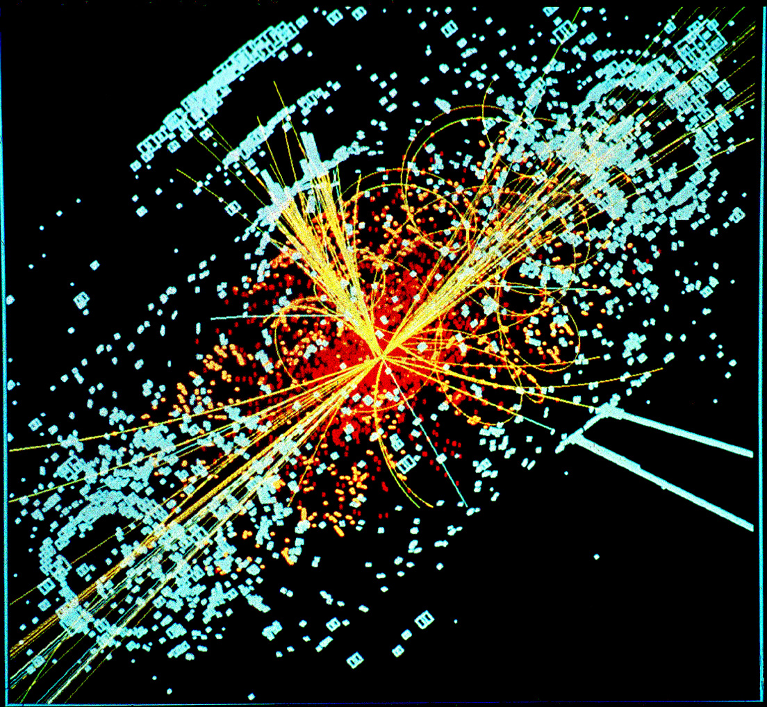 An example of simulated data modeled for the CMS particle detector on the Large Hadron Collider (LHC) at CERN. Here, following a collision of two protons, a Higgs boson is produced which decays into two jets of hadrons and two electrons. The lines represent the possible paths of particles produced by the proton-proton collision in the detector while the energy these particles deposit is shown in blue. More CMS events at CMS Media